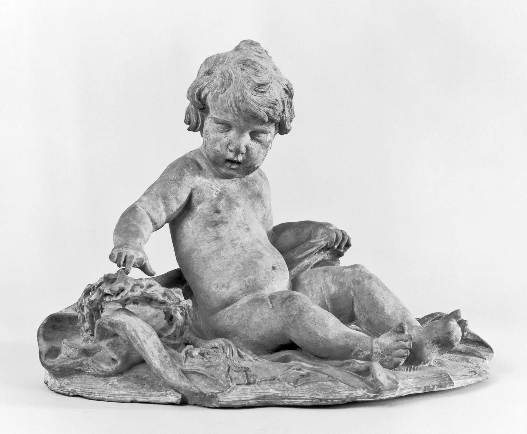 The infant Christ, grave and meditative, reaches out to touch the crown of thorns, a painful symbol of his future sacrifice, beside which lie the whip with which he was tortured and bent nails drawn from the cross. The cloth is be for wrapping an infant but is the shroud in which his dead body will be wrapped. Christ's Passion was implicit in his birth. Interpreting him as a tender, chubby infant, far too young for the understanding implied here, gives the figure great poignancy. This type of infant, impossibly young for his or her actions, was developed in Rome in the 1620s by the influential Flemish sculptor François Duquesnoy. This sensitive example is by him or a close follower. It may have been made as a model for a version in marble or bronze; however, it was once gilded and was displayed as a finished work of art.